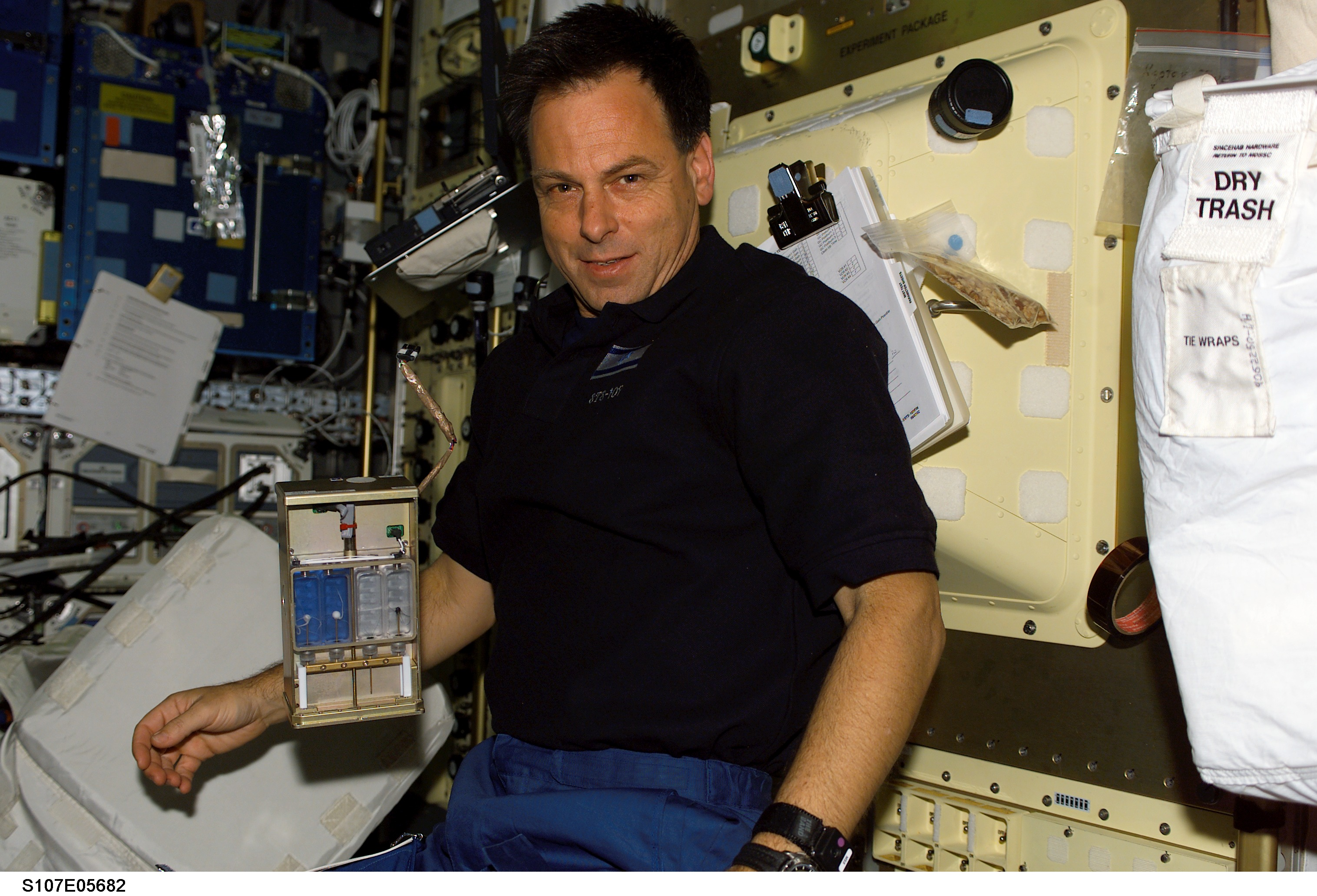 Ilan Ramon STS-107 payload specialist with the Israeli 'Chemical Garden' experiment.